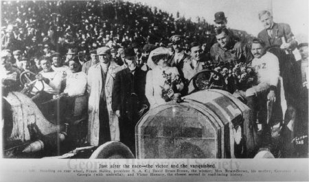 "Just after the race -- the victor and the vanquished." David Bruce-Brown and his Benz after winning the 1910 American Grand Prize in Savannah, Georgia.